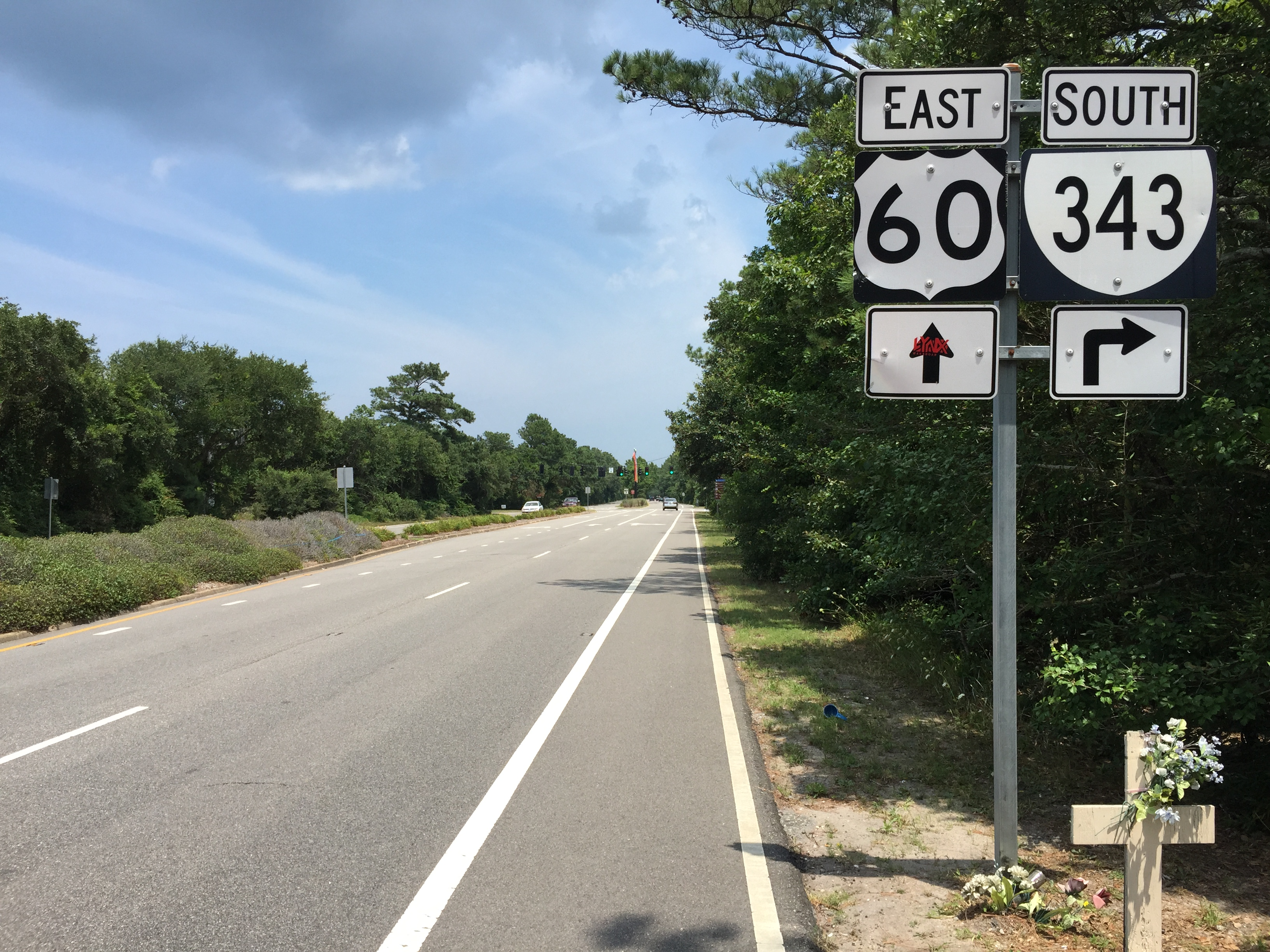 View east along U.S. Route 60 (Shore Drive) at Virginia State Route 343 within First Landing State Park in Virginia Beach, Virginia